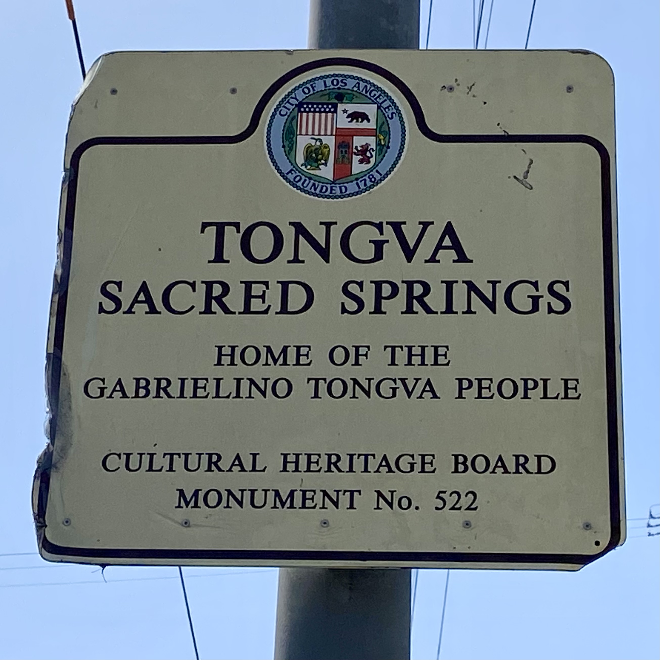 Historic landmark sign on Barrington Avenue, marking location of Serra Springs, California State Historical Landmark number 522, located on the campus of University High School in Los Angeles County, USA. The springs, called Kuruvungna by the native Gabrieleno Tongva people, were used as natural fresh water source by the Tongva people since the 5th century BC and continue to produce 22,000 - 25,000 gallons of water a day.